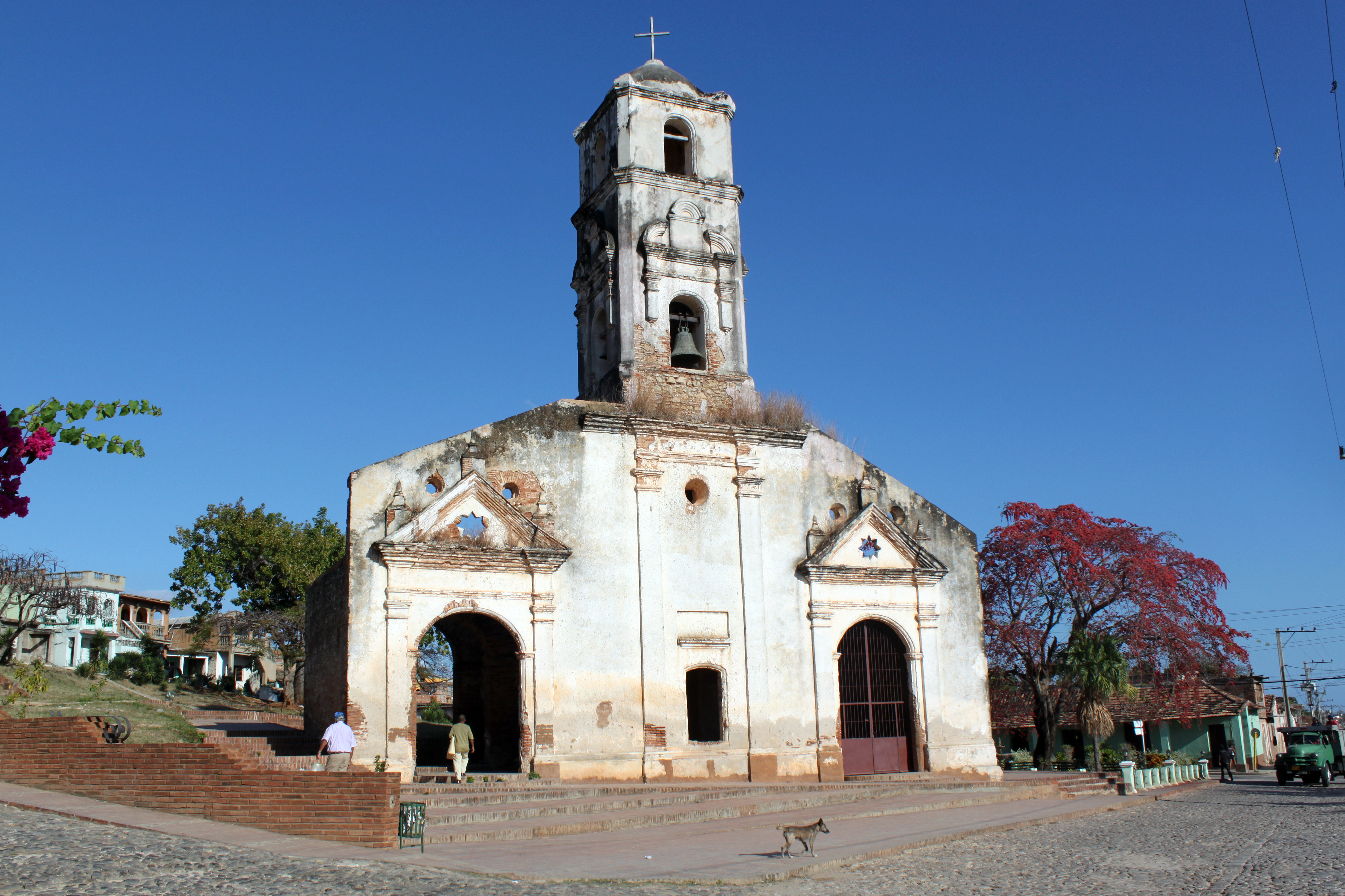 Street scene in Trinidad, Cuba: Iglesia de Santa Ana